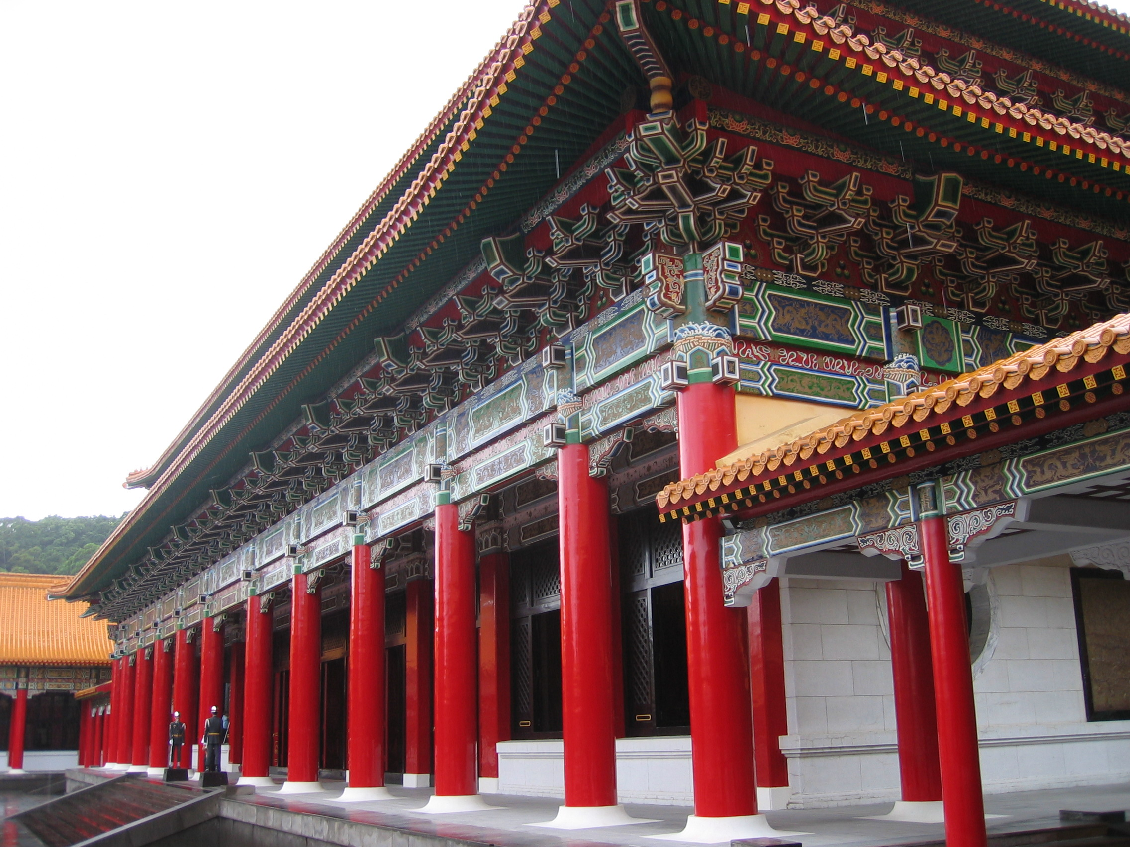 Photo taken by User:Jiang in Taipei City, Republic of China on 2005.08.04.